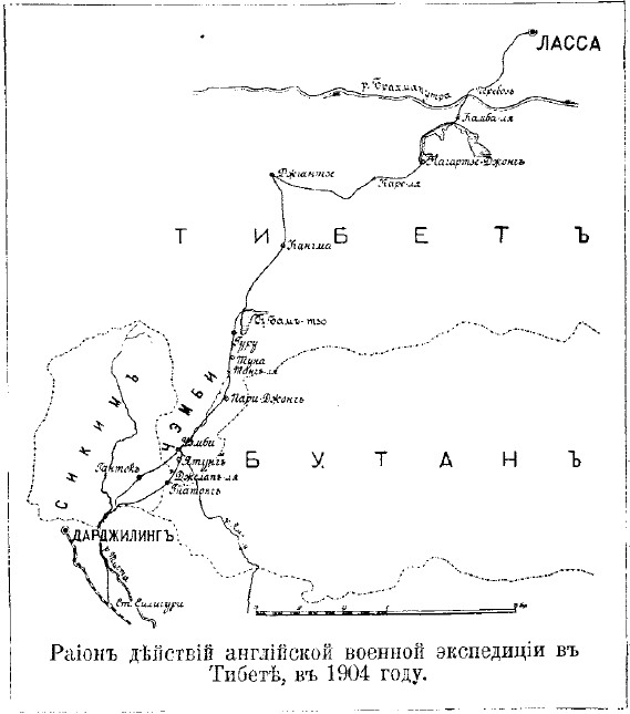 British expedition to Tibet map. 1904